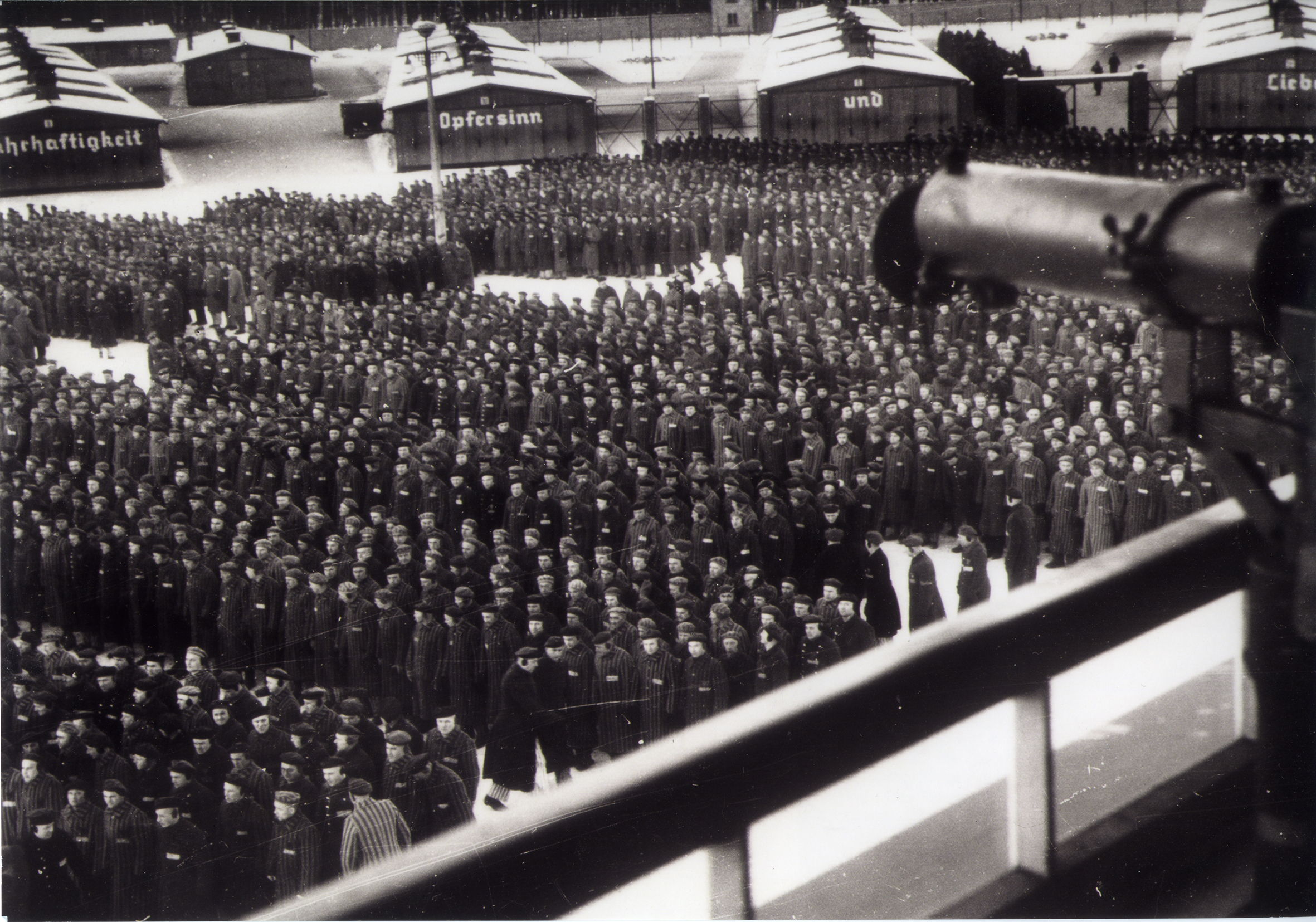 (Translation of original German description) Sachsenhausen Concentration Camp, prisoners at roll call & tally (German News Service) In July 1936, the fascists built the notorious Sachsenhausen concentration camp, north of Oranienburg, which, along with its more than 50 satellite camps, provided the armaments industry in northern Germany with cheap slave labor, particularly during the Second World War. Shown here: prisoners called to attention for the tally and roll call.